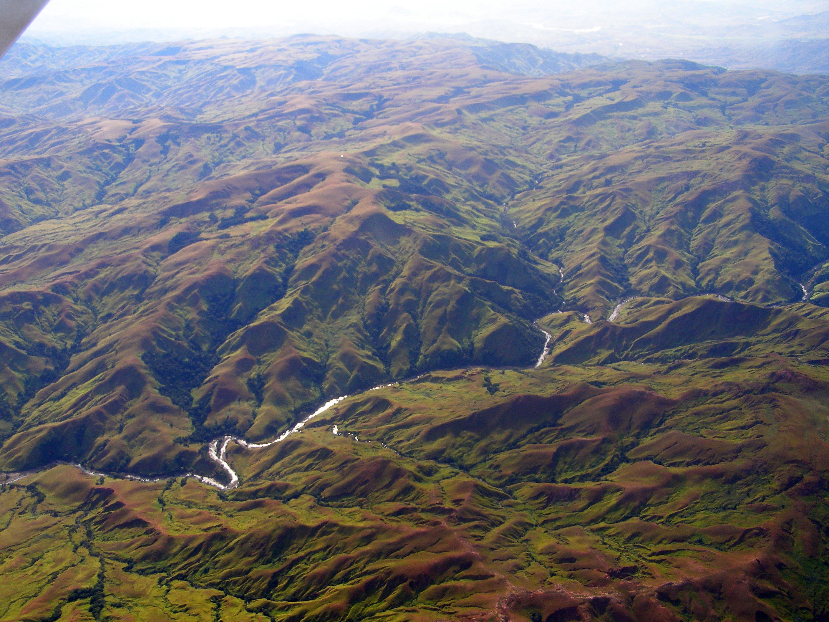 Aerial photograph of the Madagascar Central Highland Plateau, where deforestation has led to extensive siltation and unstable flows of western rivers.